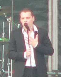 The singer Bénabar at the Fête de l'Humanité 2006 (cropped version).